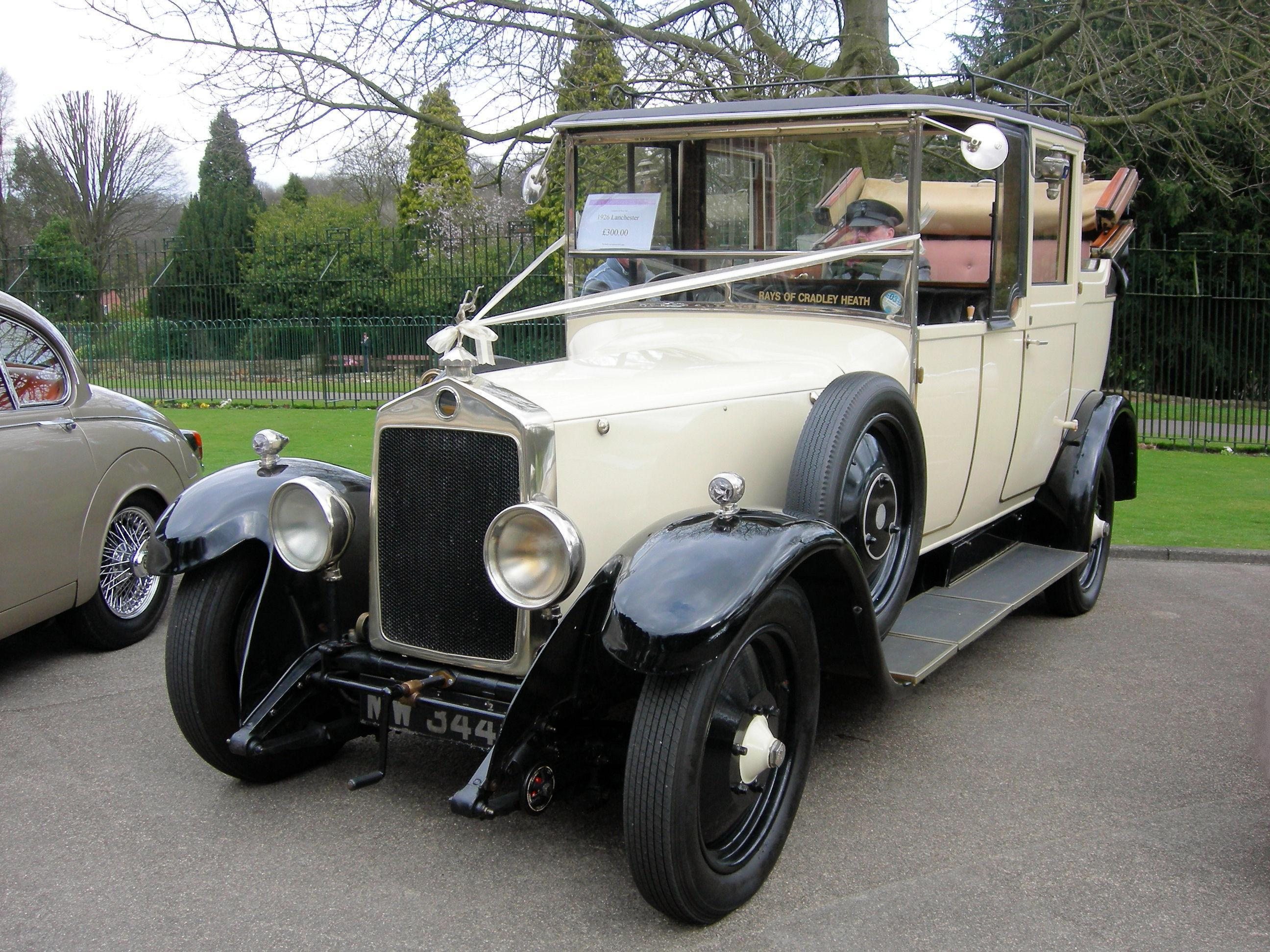 1926 Lanchester MW 3440. at Wedding Fair. Priory Hall. Dudley. This photo was taken on March 10, 2012 using a Nikon Coolpix P2. (DVLA) 3310 cc first registered 17 December 1928